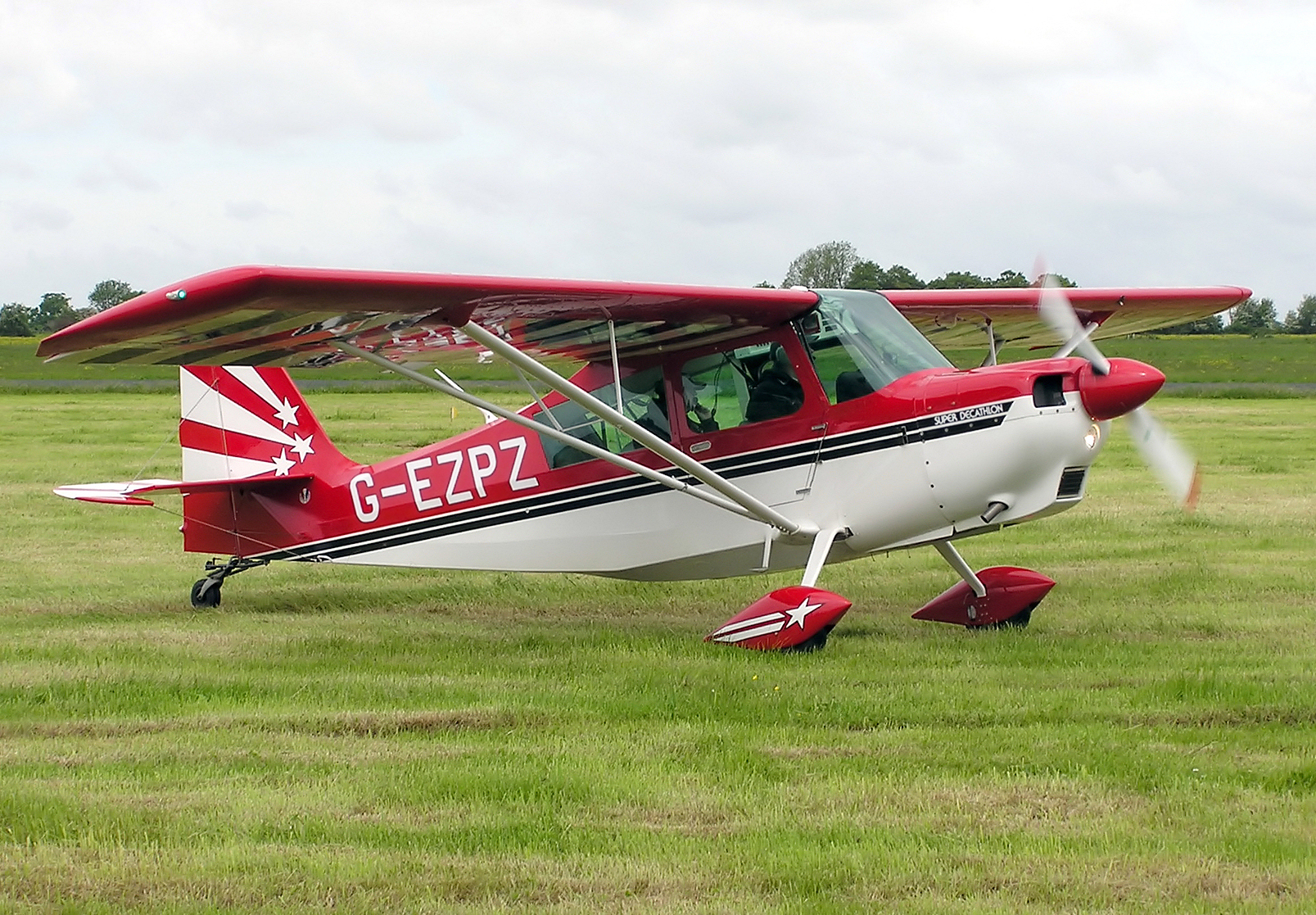 American Champion 8KCAB Super Decathlon (G-EZPZ) at a light aircraft rally (the 2006 Great Vintage Flying Weekend) at Keevil Airfield, Wiltshire, England.